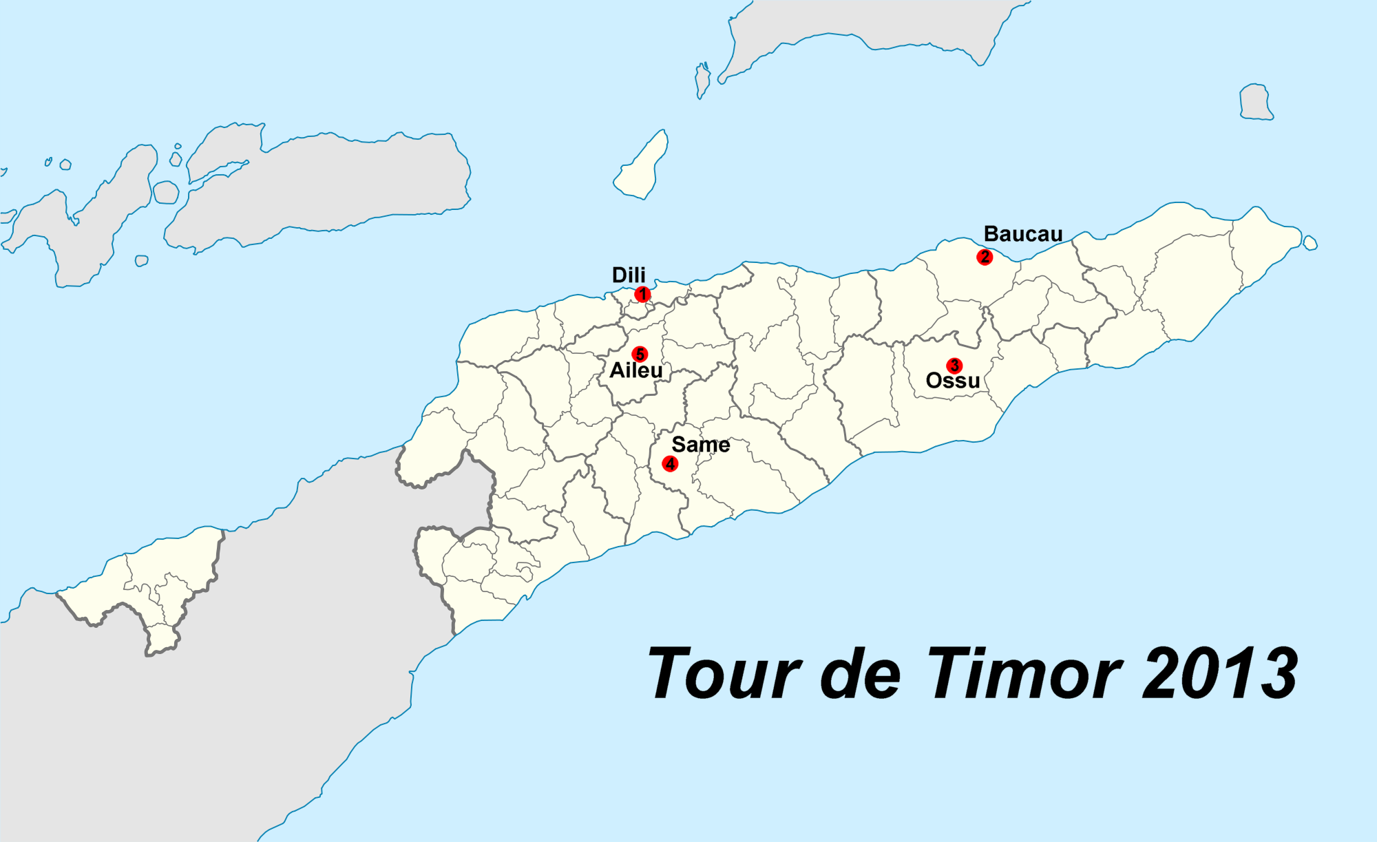 Stops of the Tour de Timor 2013